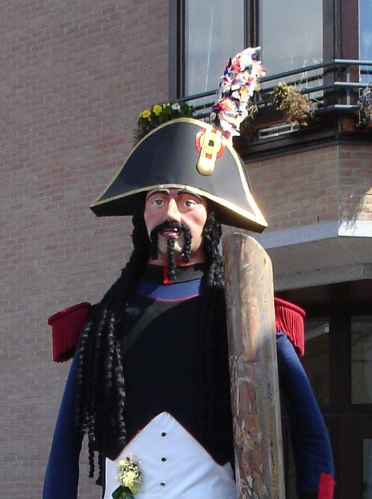 Face of Samson